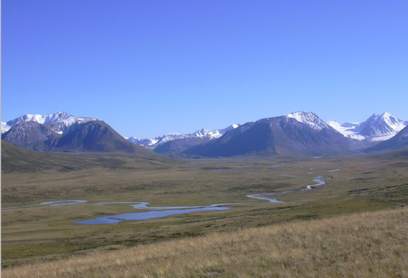 Ukok Plateau Image originally from the Russian Wikipedia (Изображение:Dscn0654.jpg) Licence (by author)